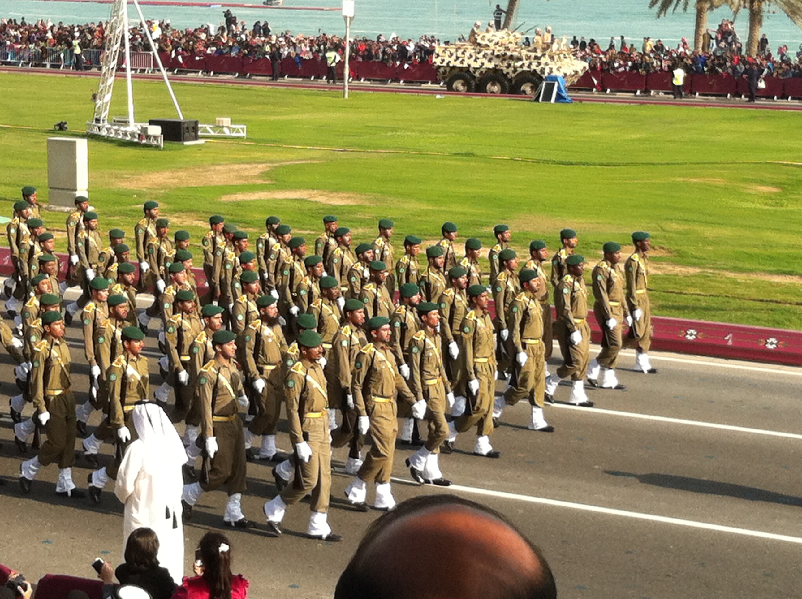 Qatari army parading down the Doha Corniche during Qatar National Day.